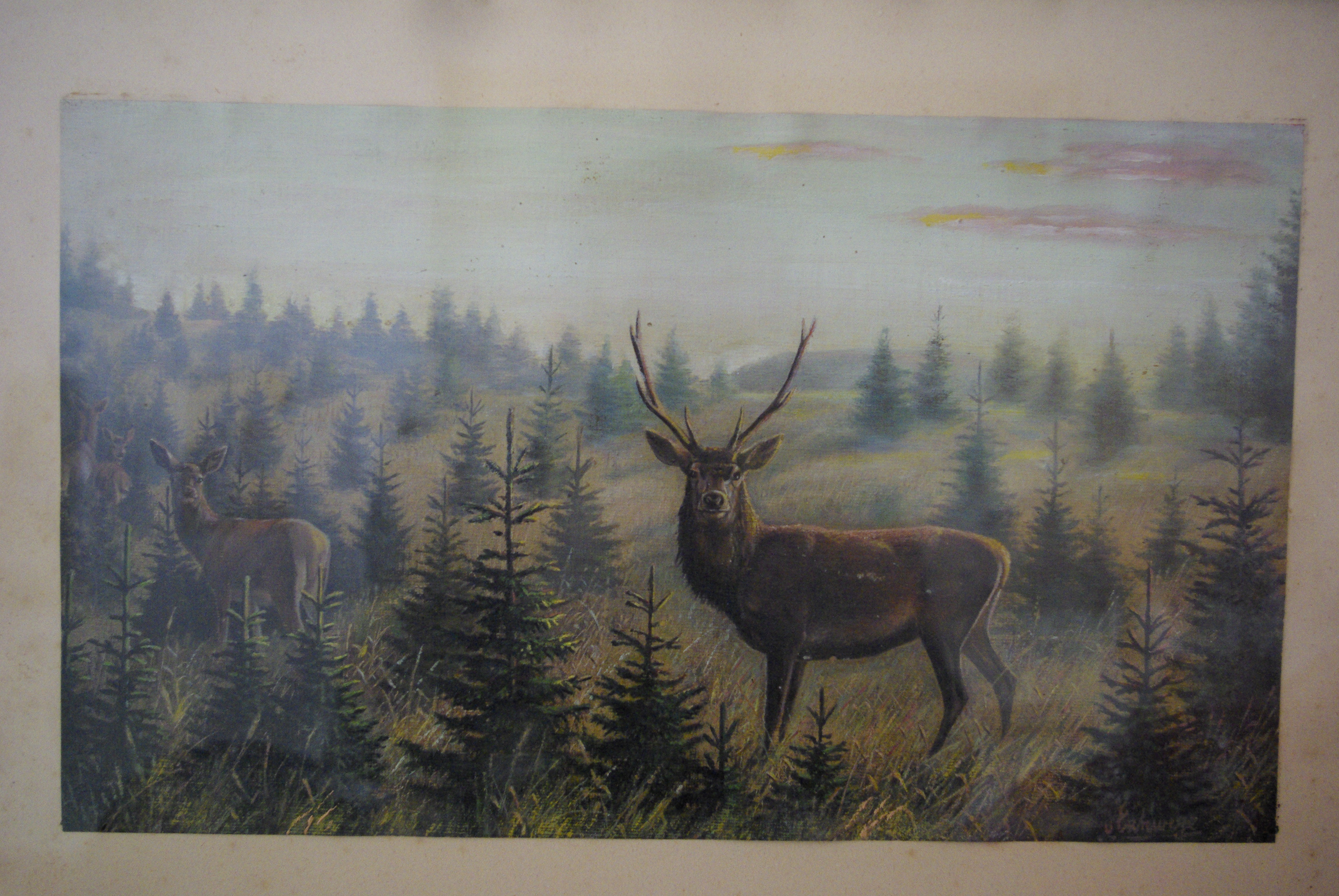 Deers hunted down by Ernst von Eschwege in 1918.